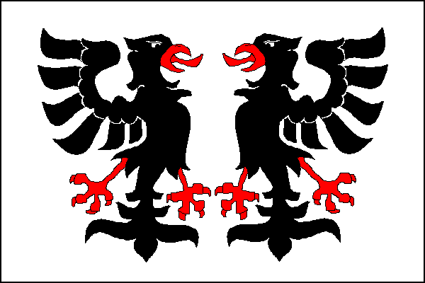 Municipal flag of Chrast town, Chrudim District, Czech Republic.